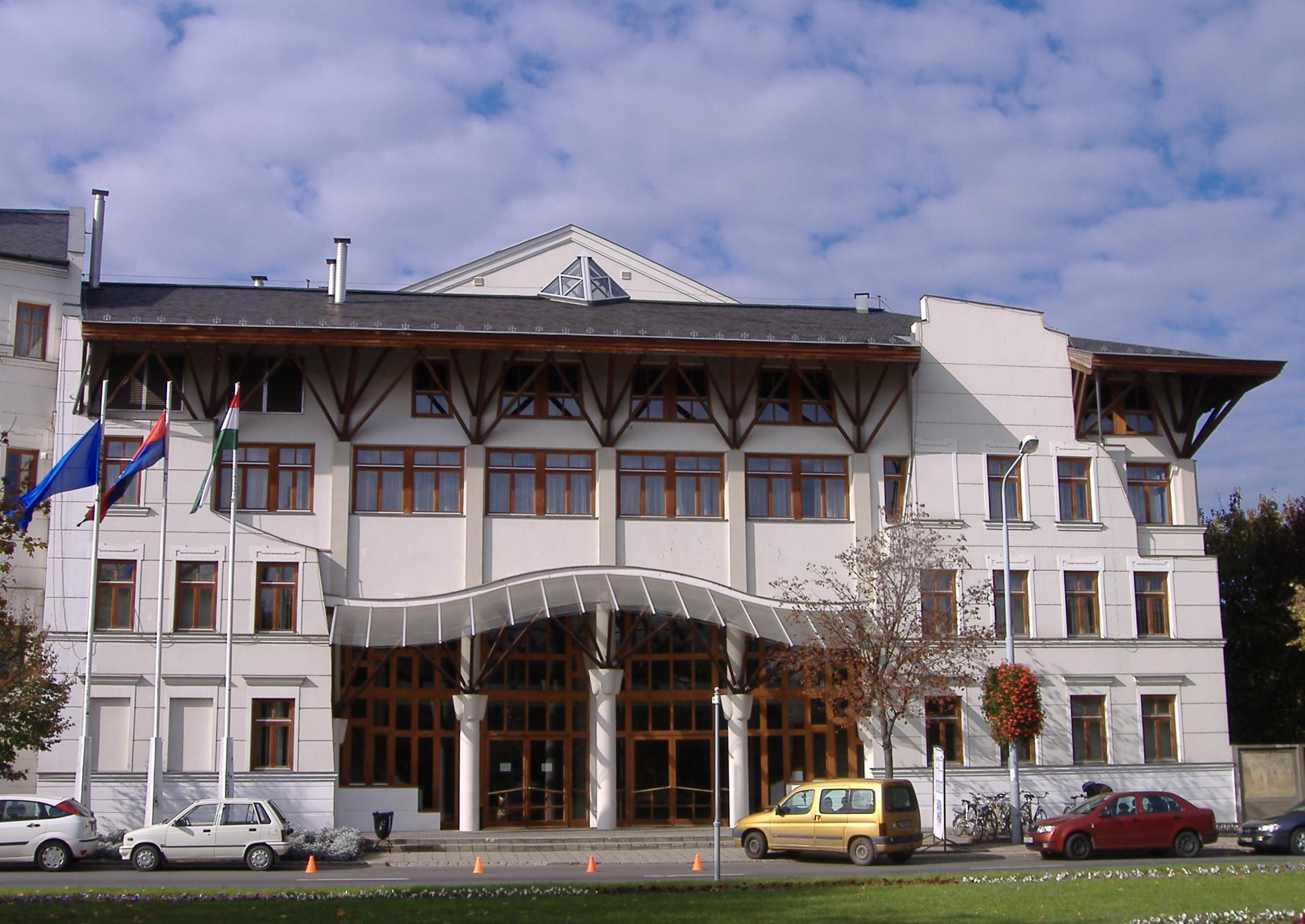 Sports Hall in Makó, Hungary.